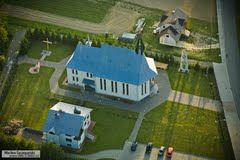 Kościół w Cierpiszu